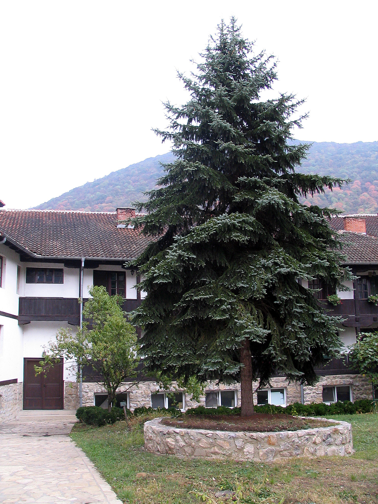 Colorado spruce in Manasija monastery (Serbia)